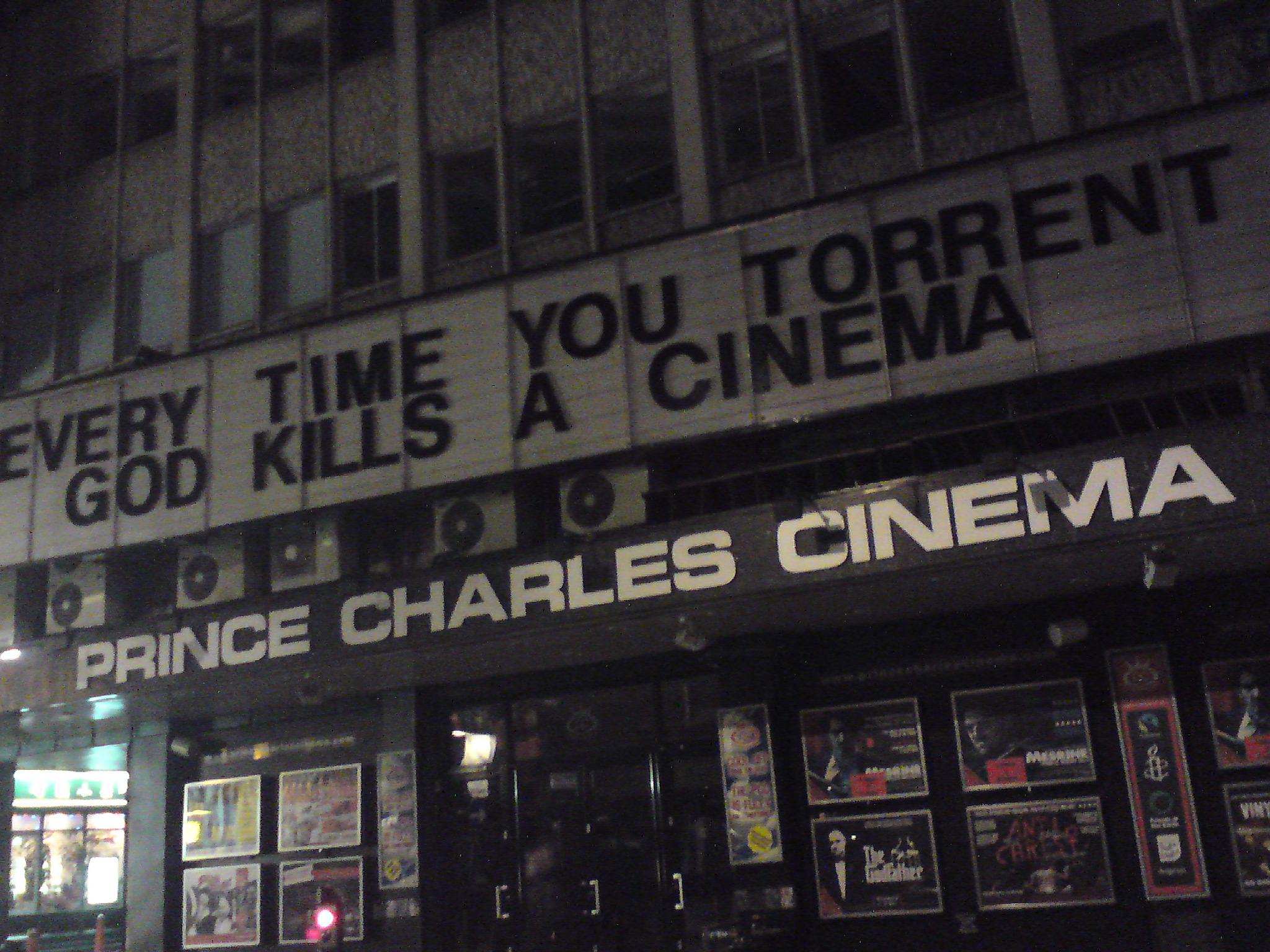 EVERY TIME YOU TORRENT GOD KILLS A CINEMA